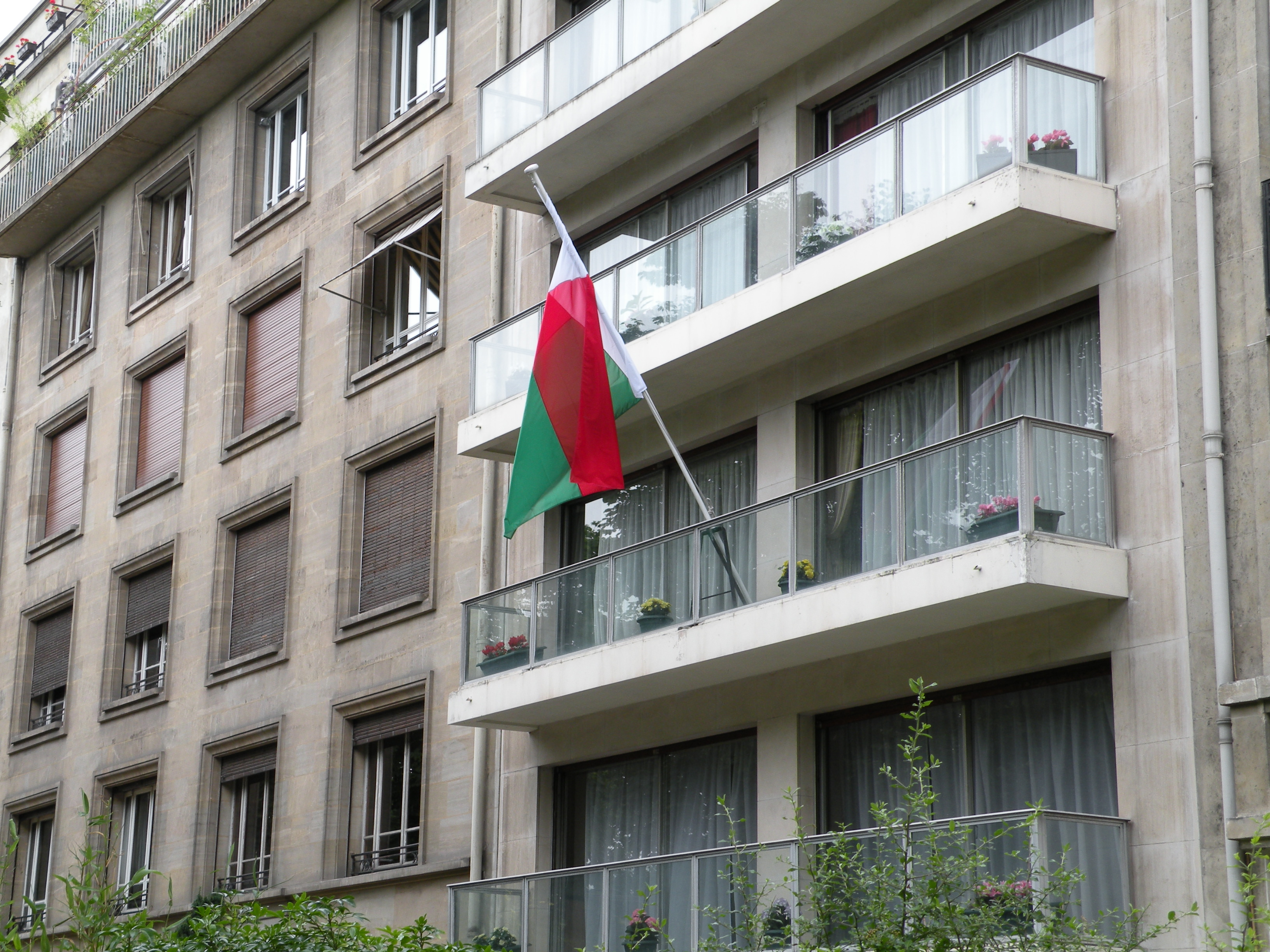 Malagasy embassy in France, Paris.